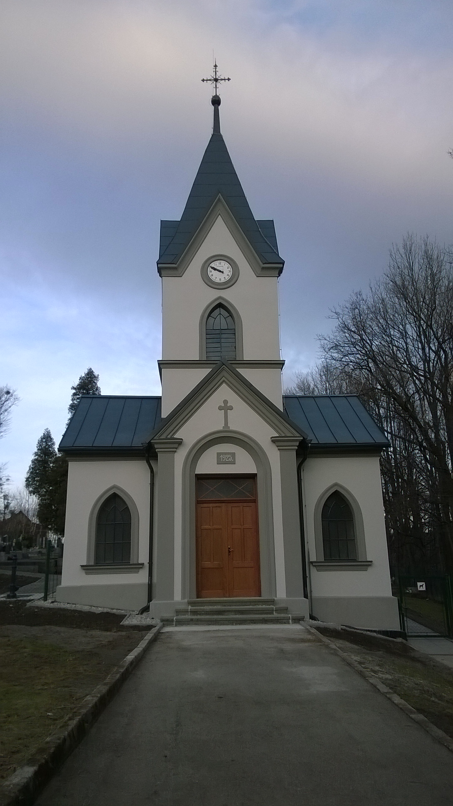 Cemetery chapel